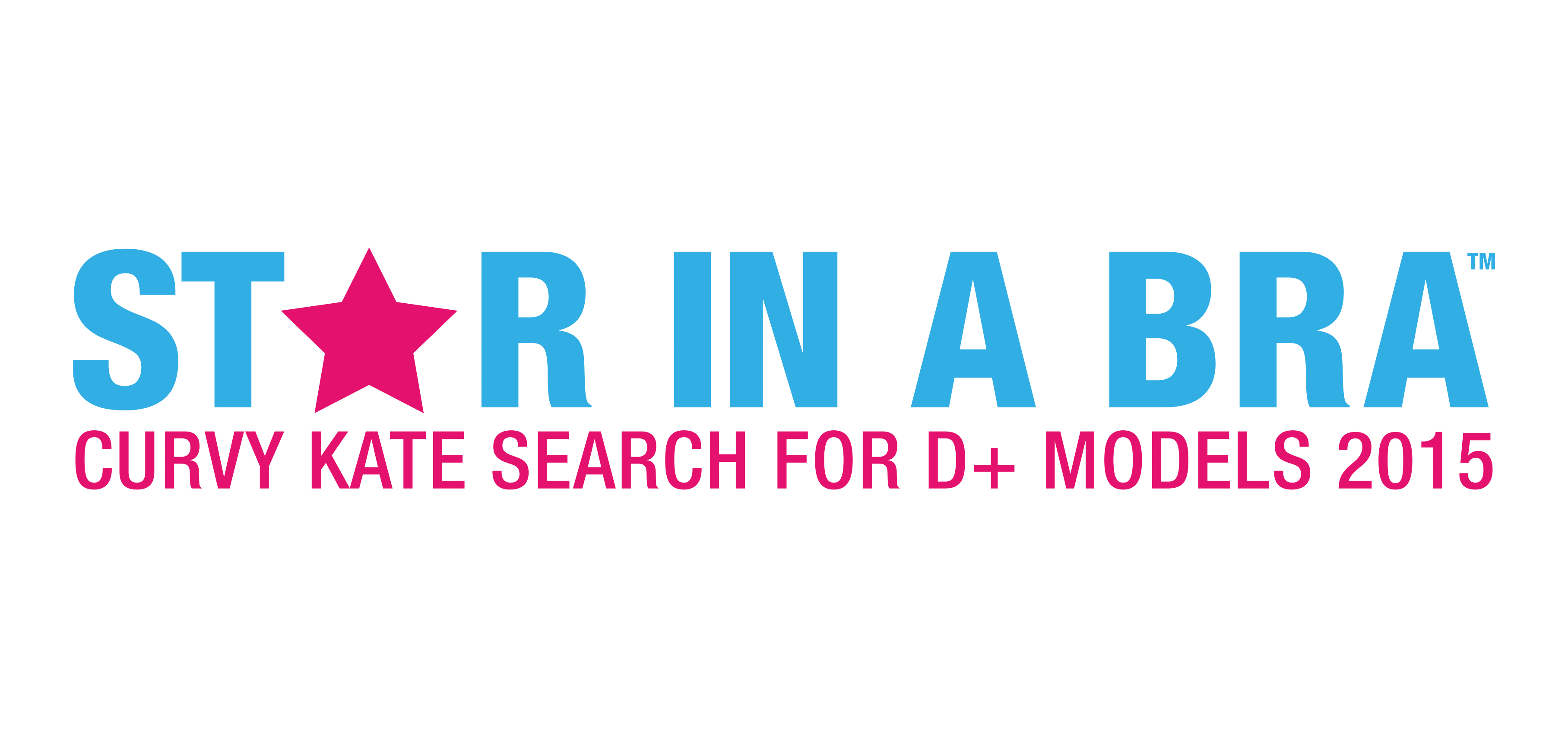 Star in a Bra Logo 2015